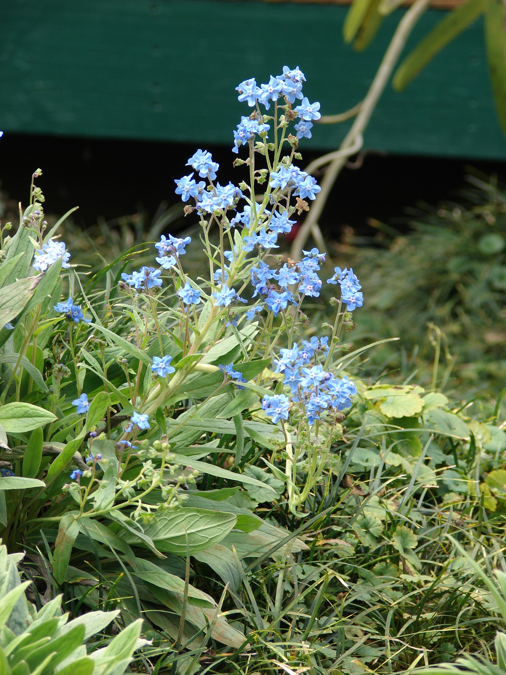 Cynoglossum amabile (flowering habit). Location: Maui, Ulupalakua Ranch Store